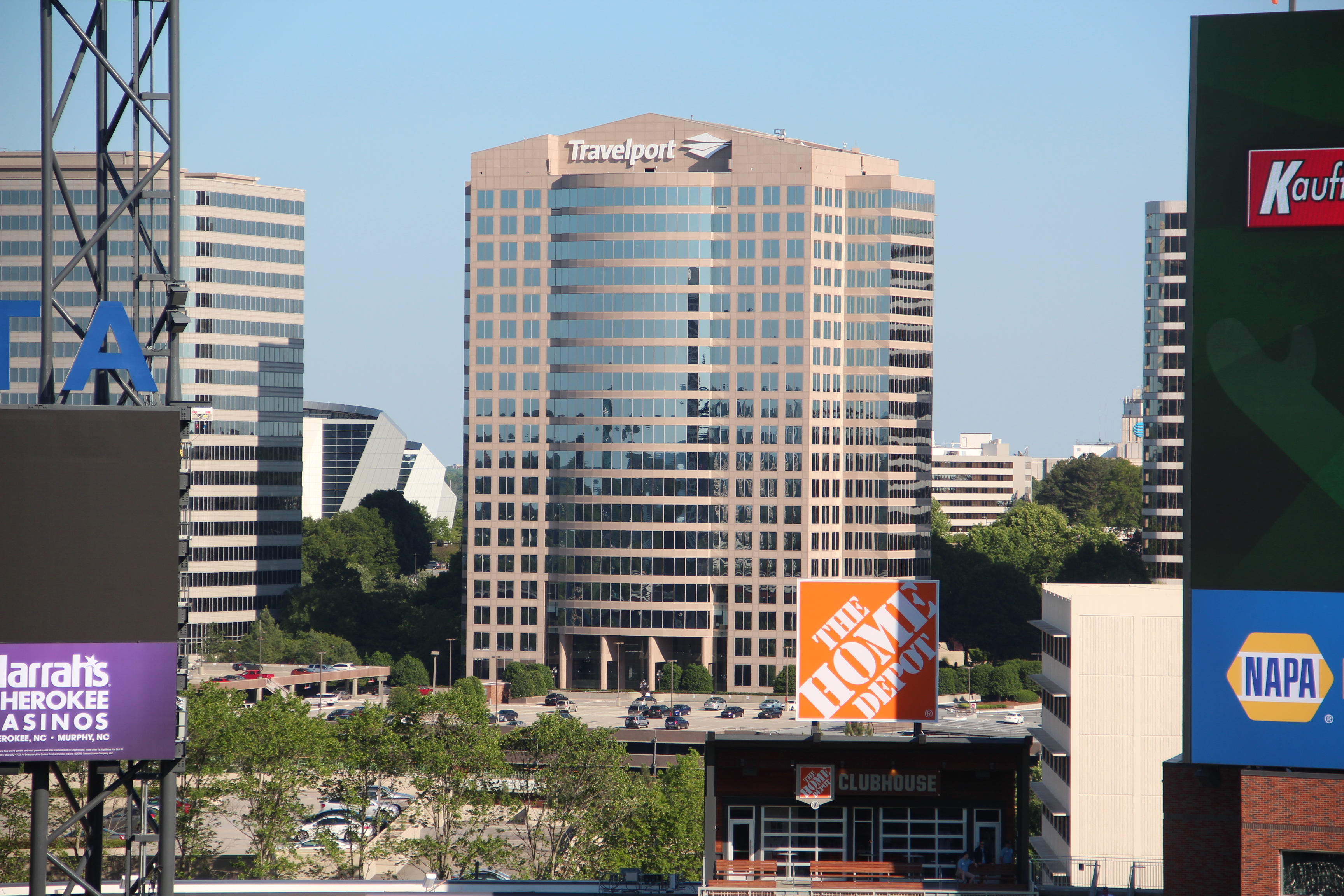 300 Galleria Pkwy viewed from SunTrust Park